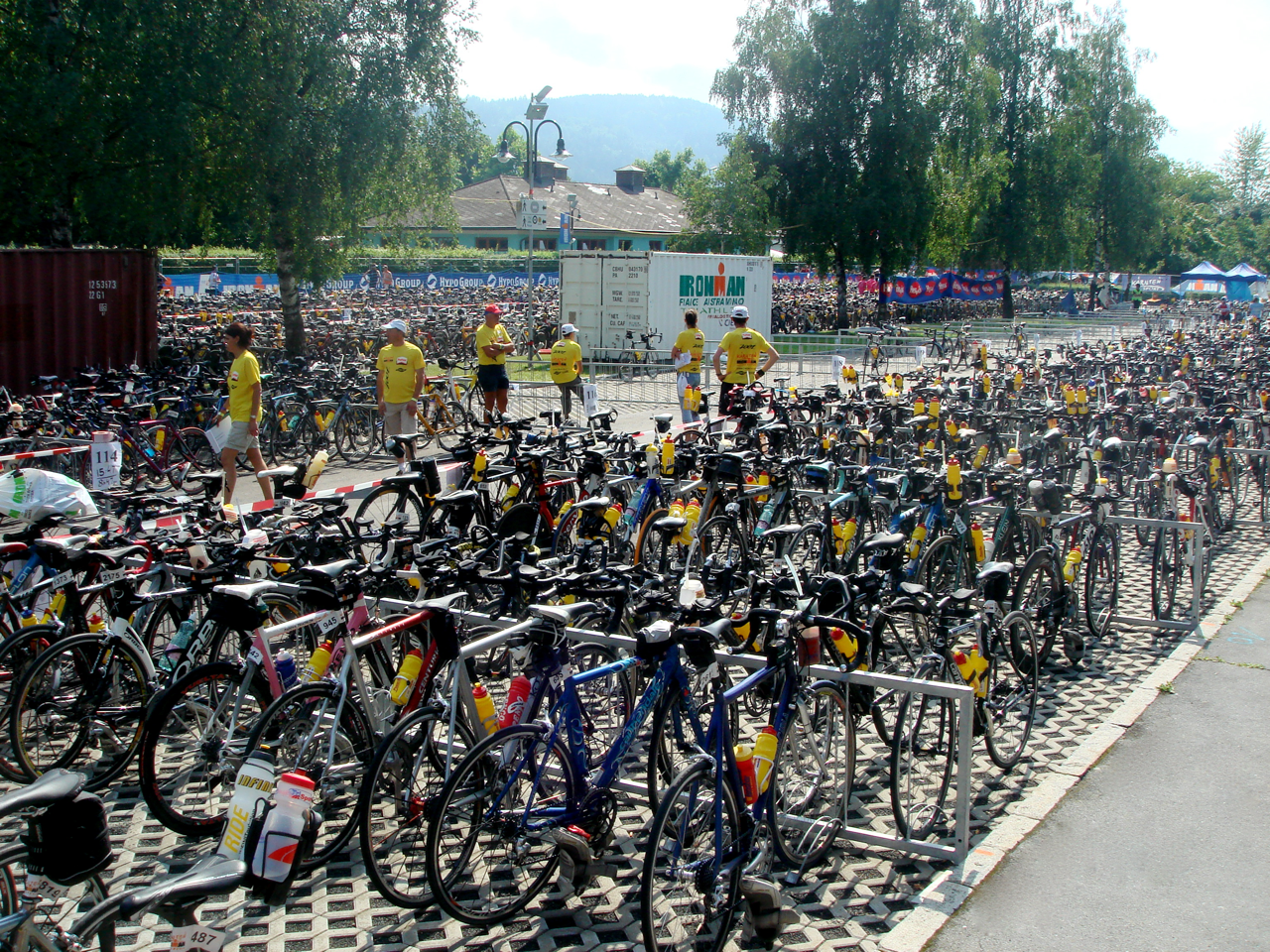 Picture is presenting bike park during triathlon Ironman event in Klagenfurt, Austria